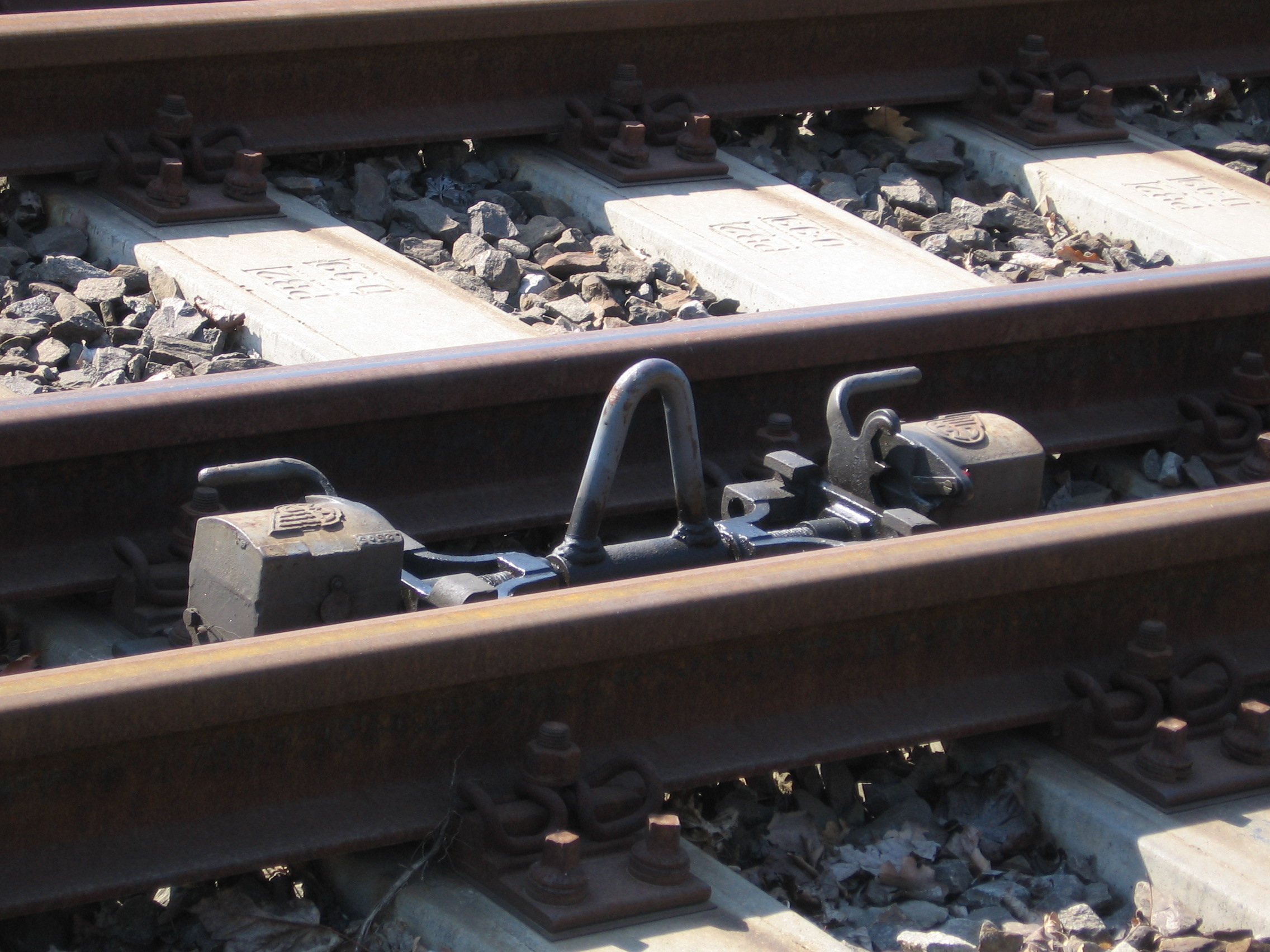 Autostop hand operated trackside device.